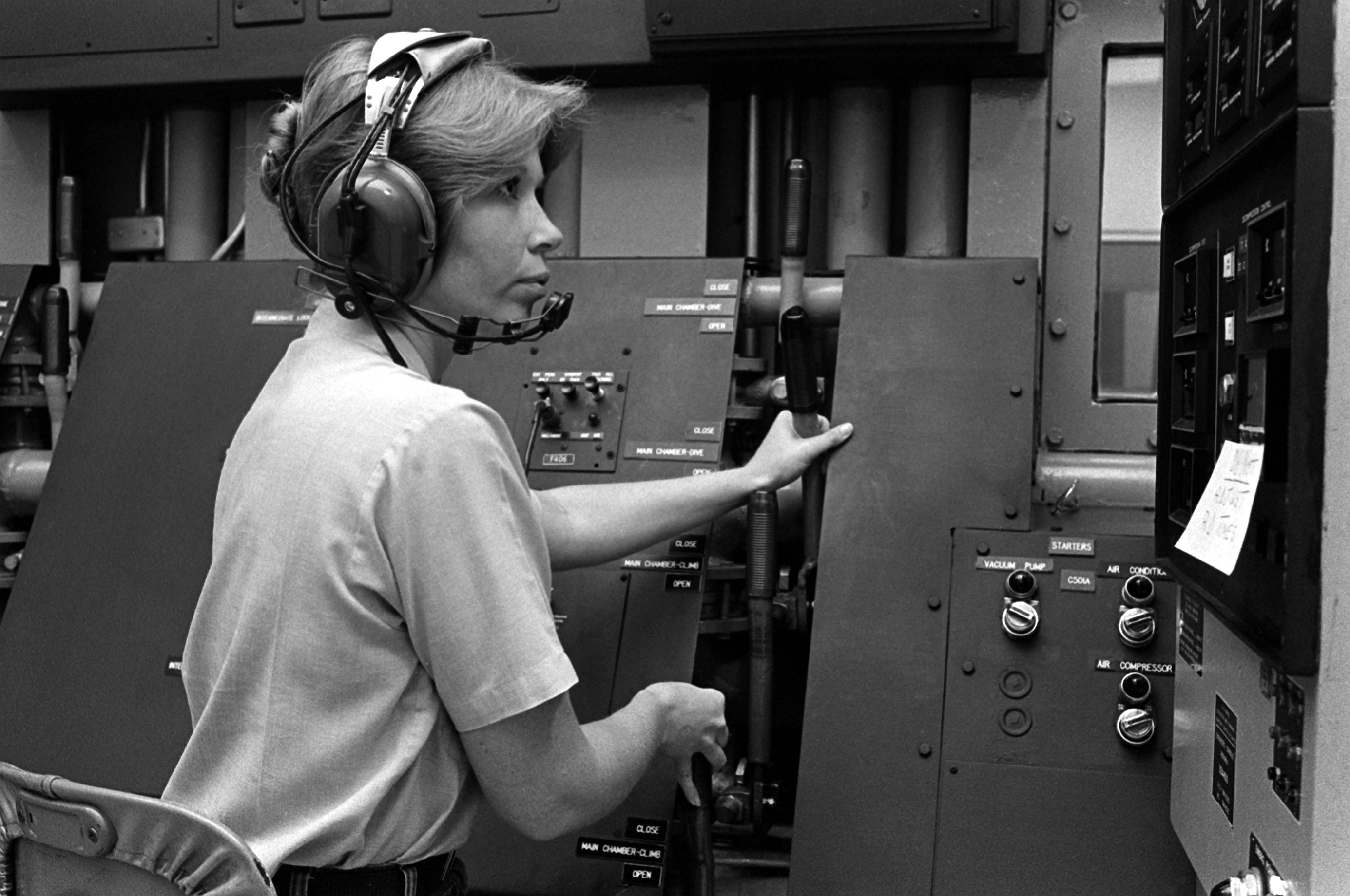 Petty Officer 3rd Class Rosalee Burton, operates a training device designed to simulate in-flight pressure changes on aviators. As a Navy traing device man Burton operates, maintains, and teaches about Navy training equipment at the Naval Aerospace Medicine Institute.